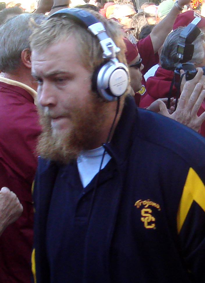 Sam Baker, walking with the rest of the USC Trojans football team towards Notre Dame Stadium.